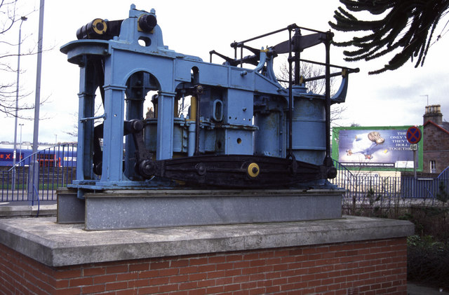 Engine of Paddle Steamer Leven, Dumbarton. Very early paddle steamer engine by Napier. Has been preserved in the open in Dumbarton for many years. It is currently in front of the Denny Ship Experiment Tank. To the right is the engine cylinder, with the piston rod emerging vertically from the top to connect with the horizontal crosshead. The ends of the crosshead are each connected to a side rod which extends vertically downwards, one on either side of the engine cylinder, to connect to one end of a side-lever on each side of the engine. The opposite ends of the side-levers are attached to the connecting rod assembly, which extends upwards to the crankshaft at top left.